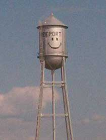 The smiley-faced water tower along Interstate 94 in Freeport. Photo by User:Hephaestos May 28, 2003